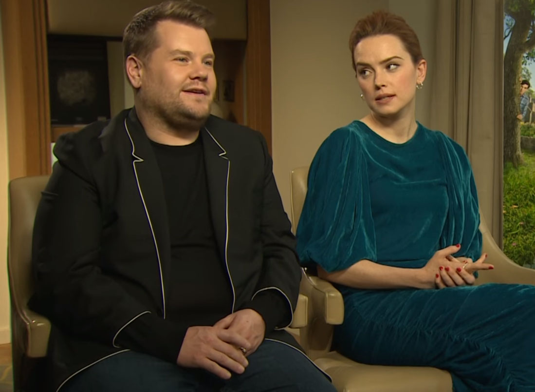 James Corden and Daisy Ridley in an interview for MTV International in 2018